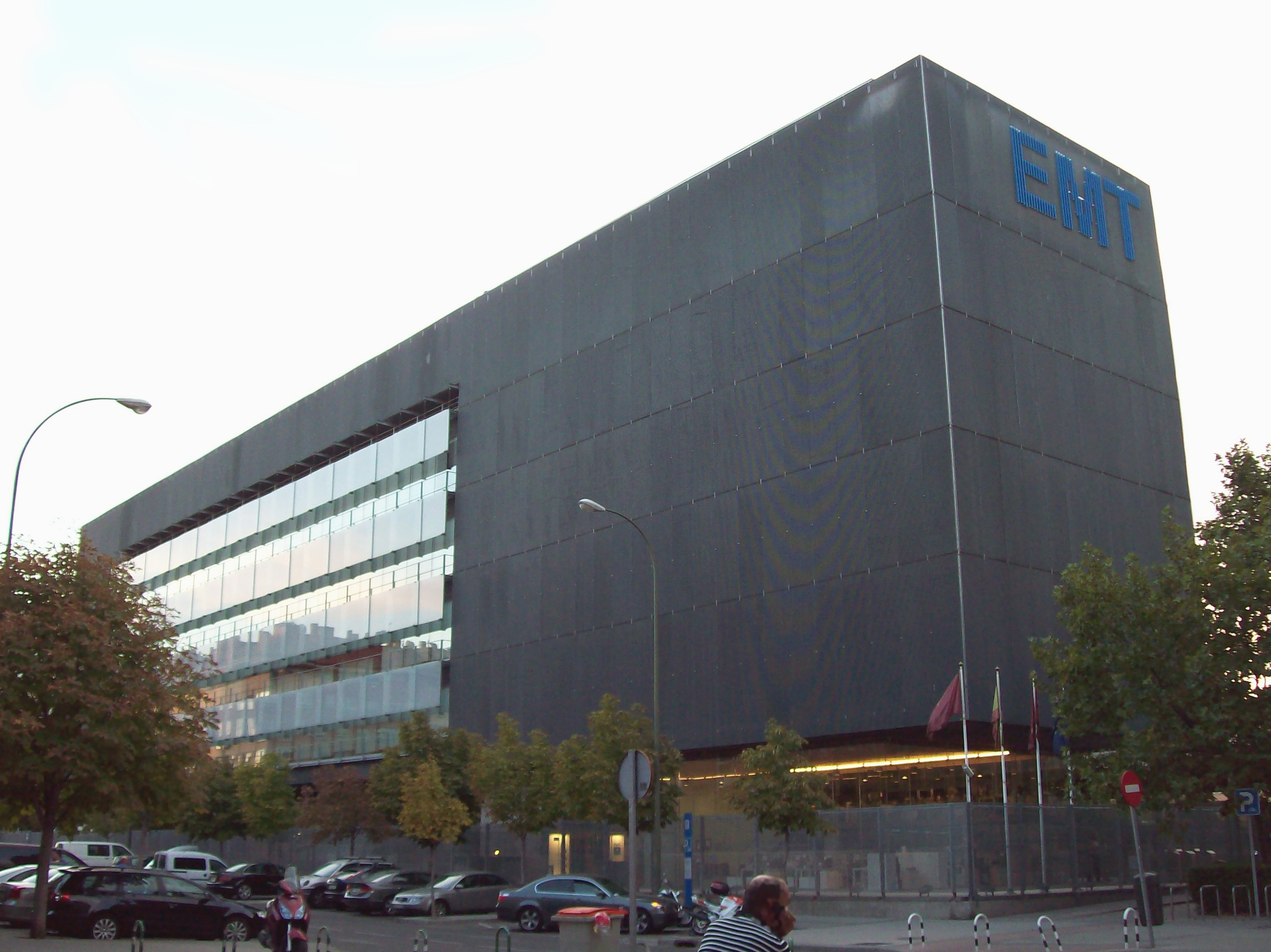 View of the headquarters of E.M.T. Madrid (Spain) from the east angle.